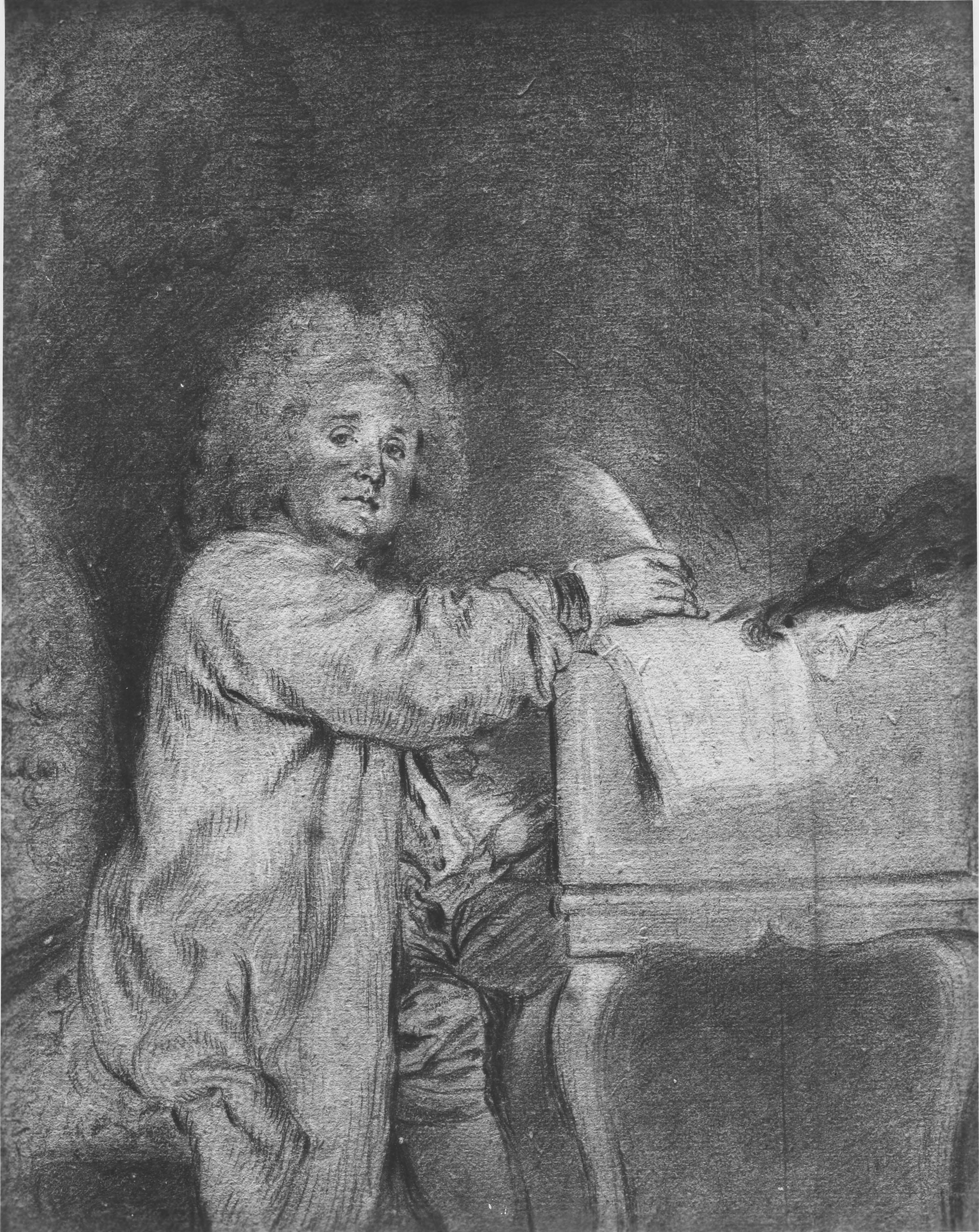 Older photograph of the drawing by Antoine Watteau of Jean-Féry Rebel (1666-1747), French composer